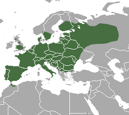 European Polecat (Mustela putorius) range